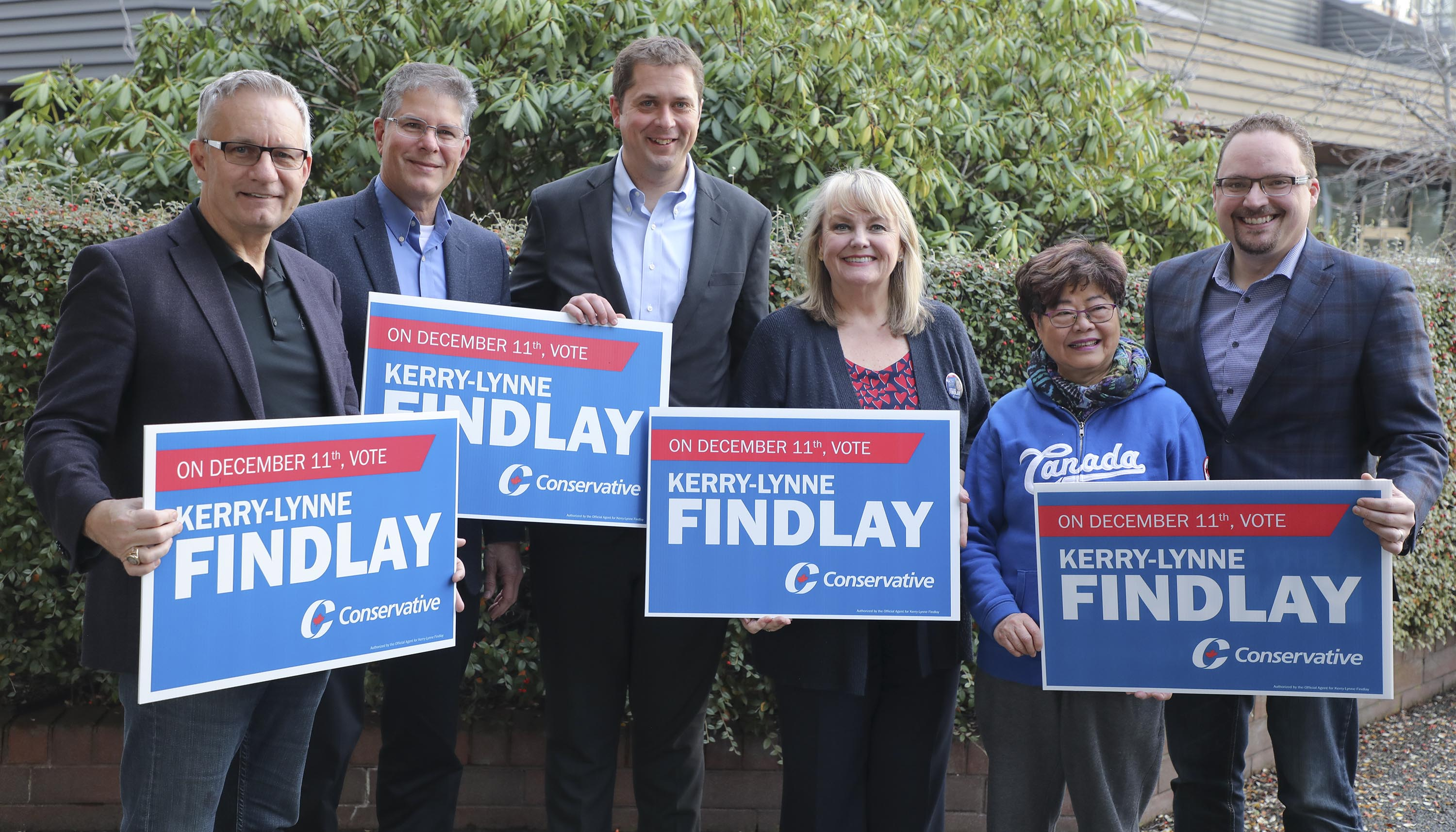 Great to have my colleagues Ed Fast, Mark Warawa, Alice Wong and Mark Strahl behind Kerry-Lynne Findlay this week. We're all rooting for you Kerry-Lynne!